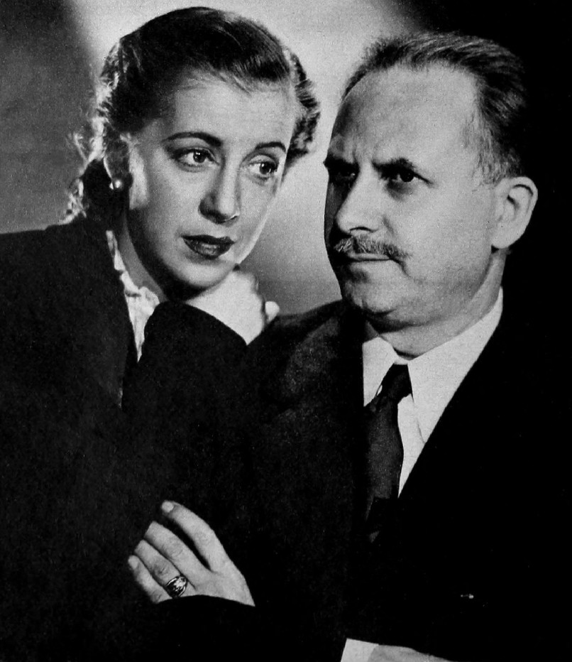 Photo of Muriel Bremner and Herb Butterfield as Mr. & Mrs Carter Colby from the radio program Lonely Women.